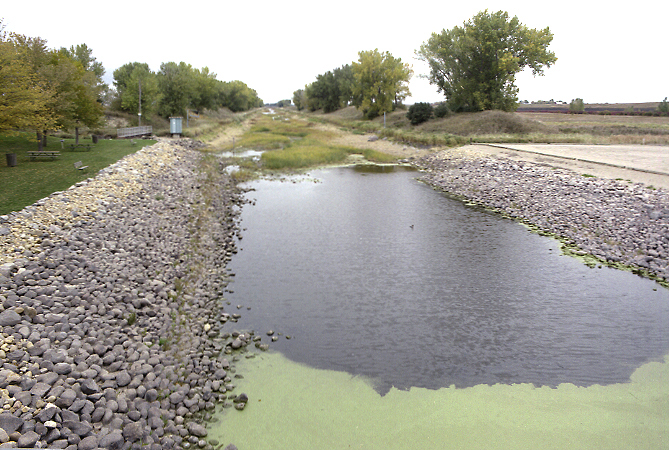 Photograph by Tim Kiser. The Bois de Sioux River below the dam at Mud Lake, en:6 October en:1996.